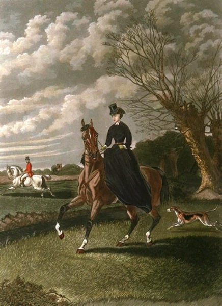 Not this Time : Engraved by C & Son Hunt after a picture by John Sturgess (61 x 48 cms.)